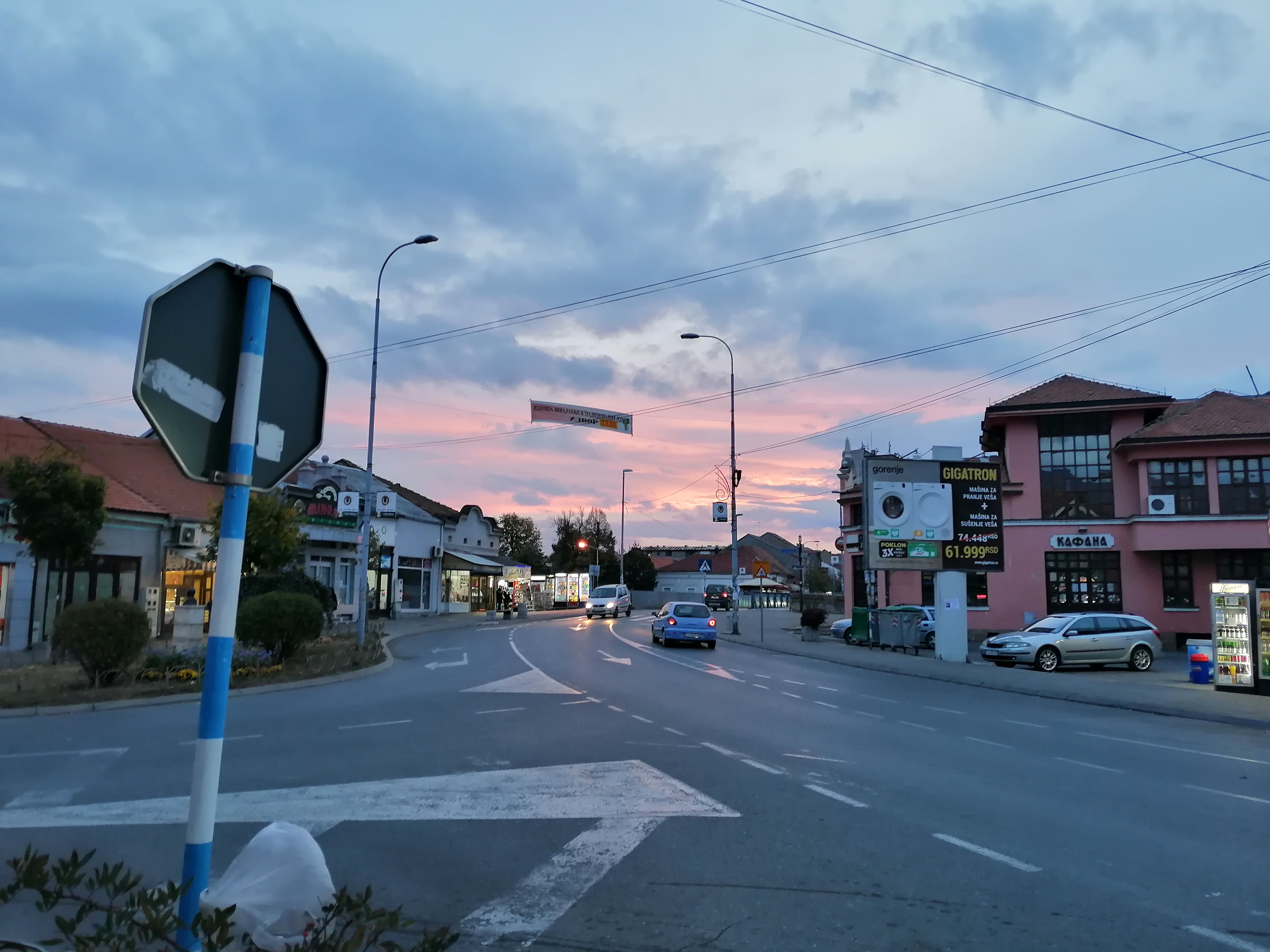 Tijabara in Pirot